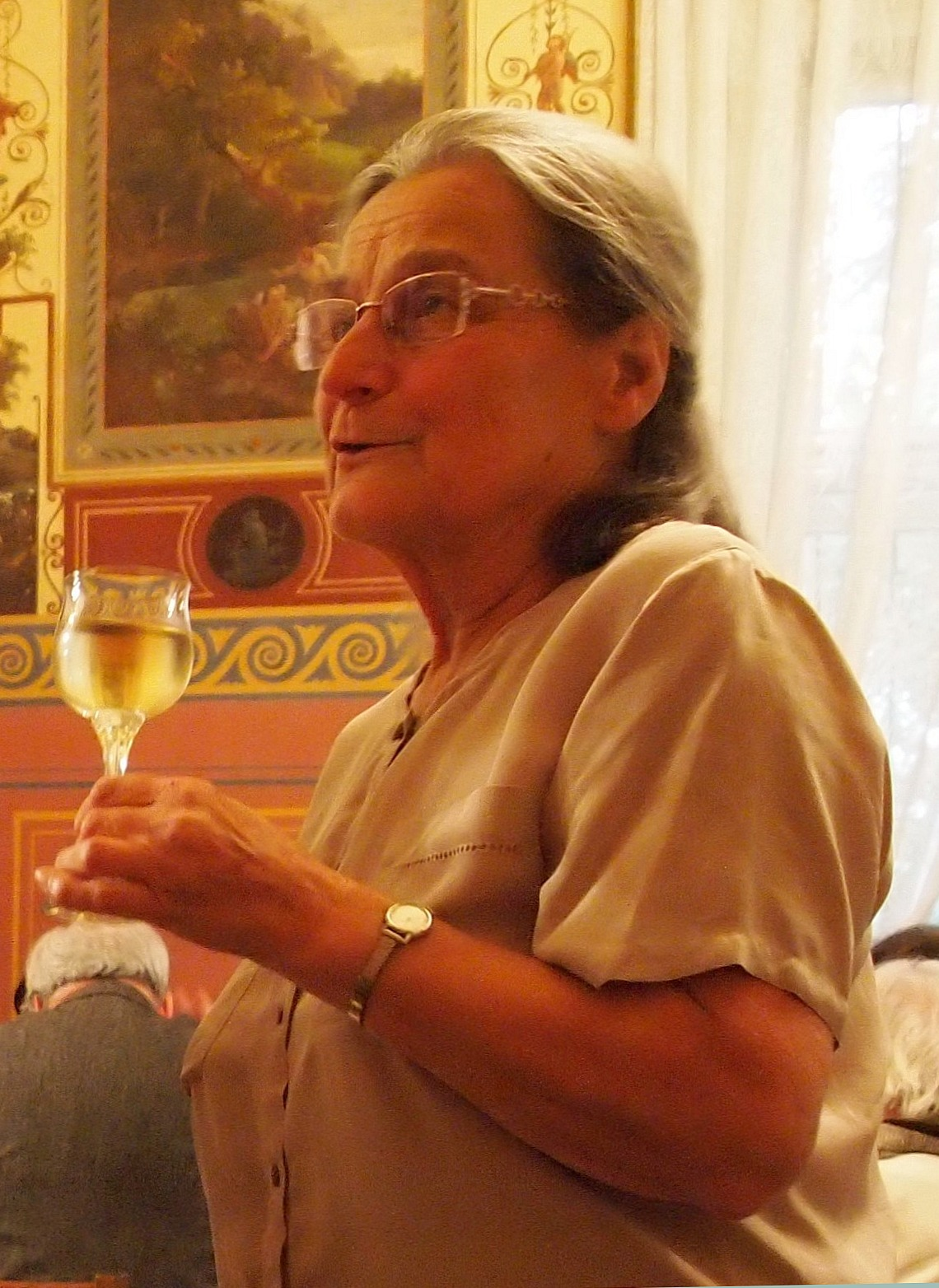 Czech archivist Prof. Zdenka Hledíková, January 2010, Prague, Villa Lanna